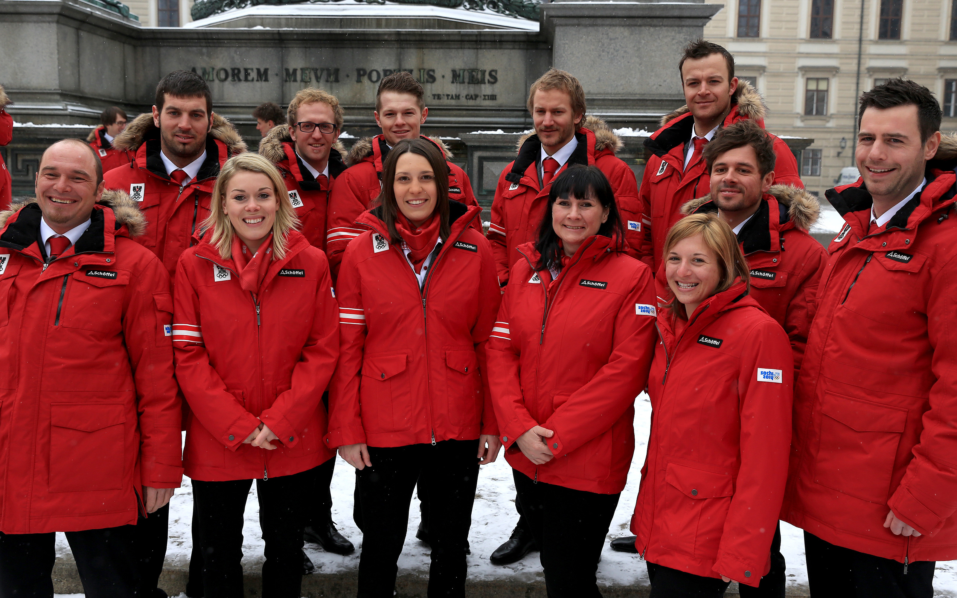 Athletes of the Austrian team for the 2014 Winter Olympics - Ski cross: Patrick Koller, Andrea Limbacher, Andreas Matt, Katrin Ofner, Christina Staudinger, Christoph Wahrstötter, Thomas Zangerl and support team; group picture taken at Hofburg Palace in Vienna, Austria.